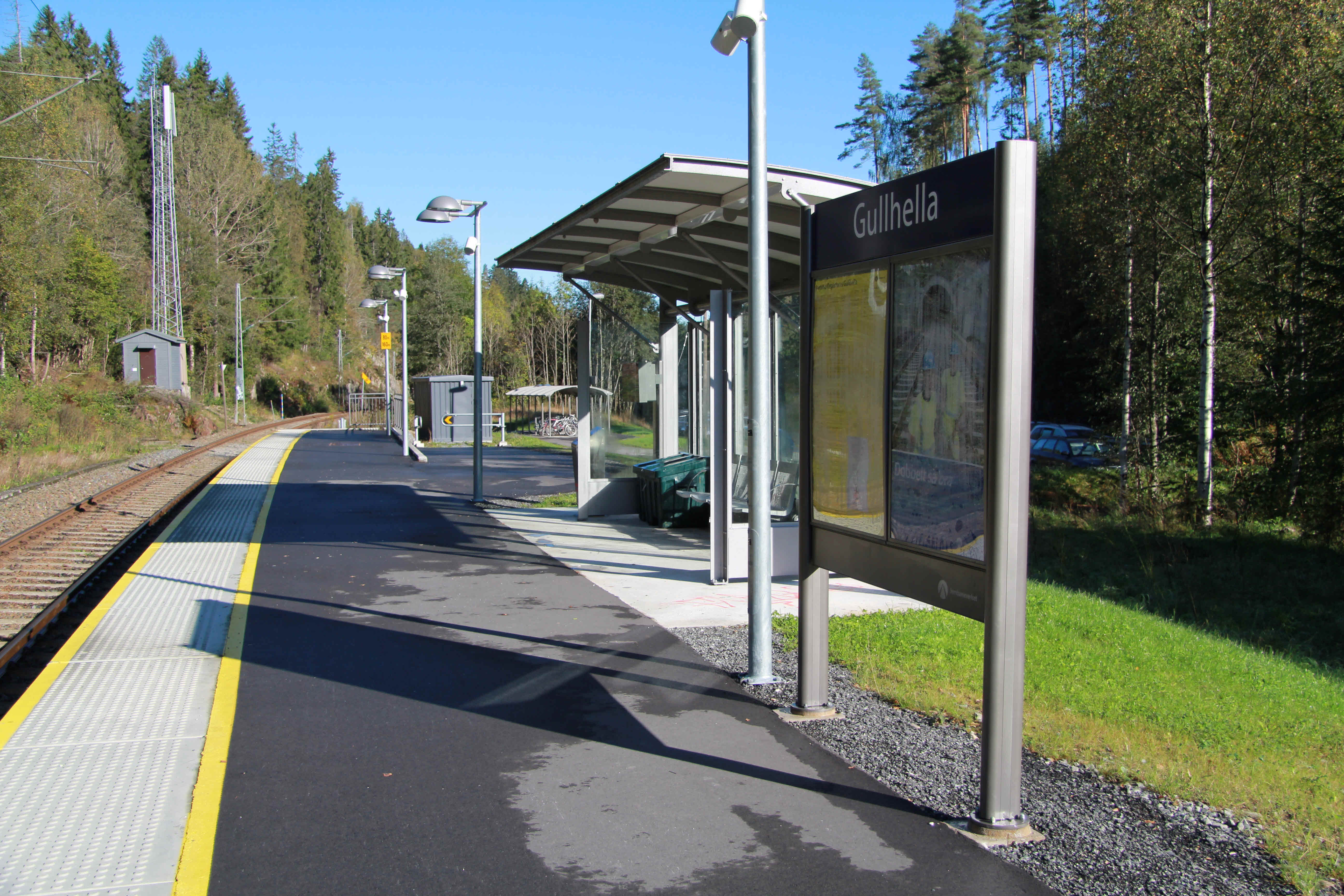 Gullhella train stop at Spikkestadbanen, view towards north and Asker